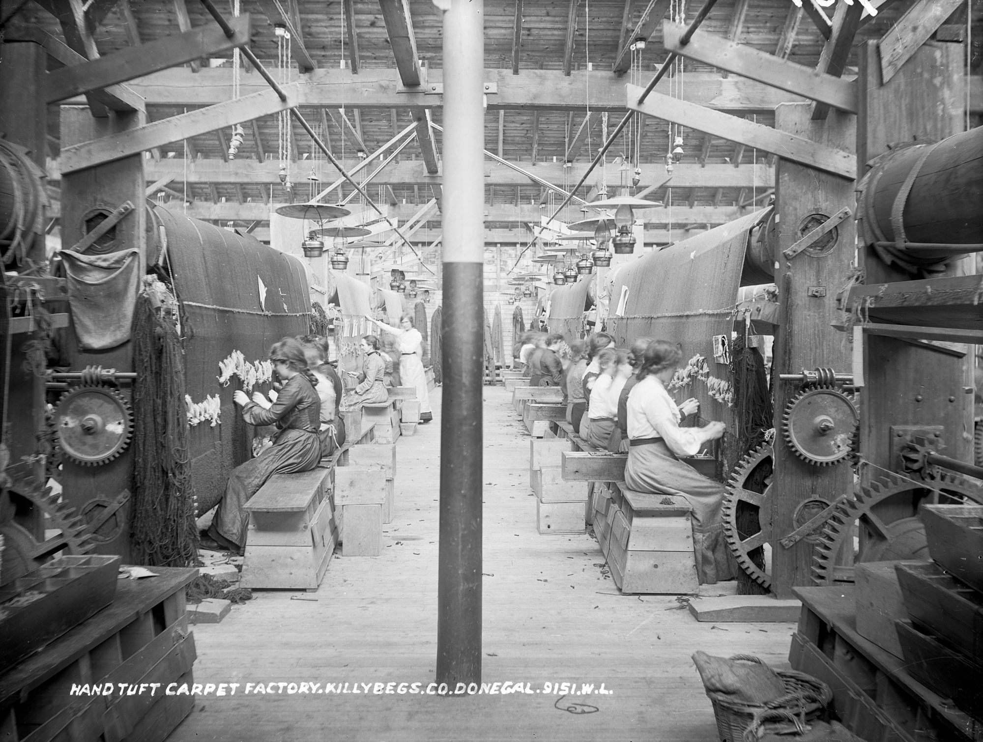 Women hand tufting carpets in a factory in Killybegs, Co. Donegal. Date: Circa 1905?? P.S. Don't you all dare run off before finishing your eccer here, but whatsthatpicture is looking for help on this photo that certainly could be somewhere in Ireland NLI Ref.: L_ROY_09151